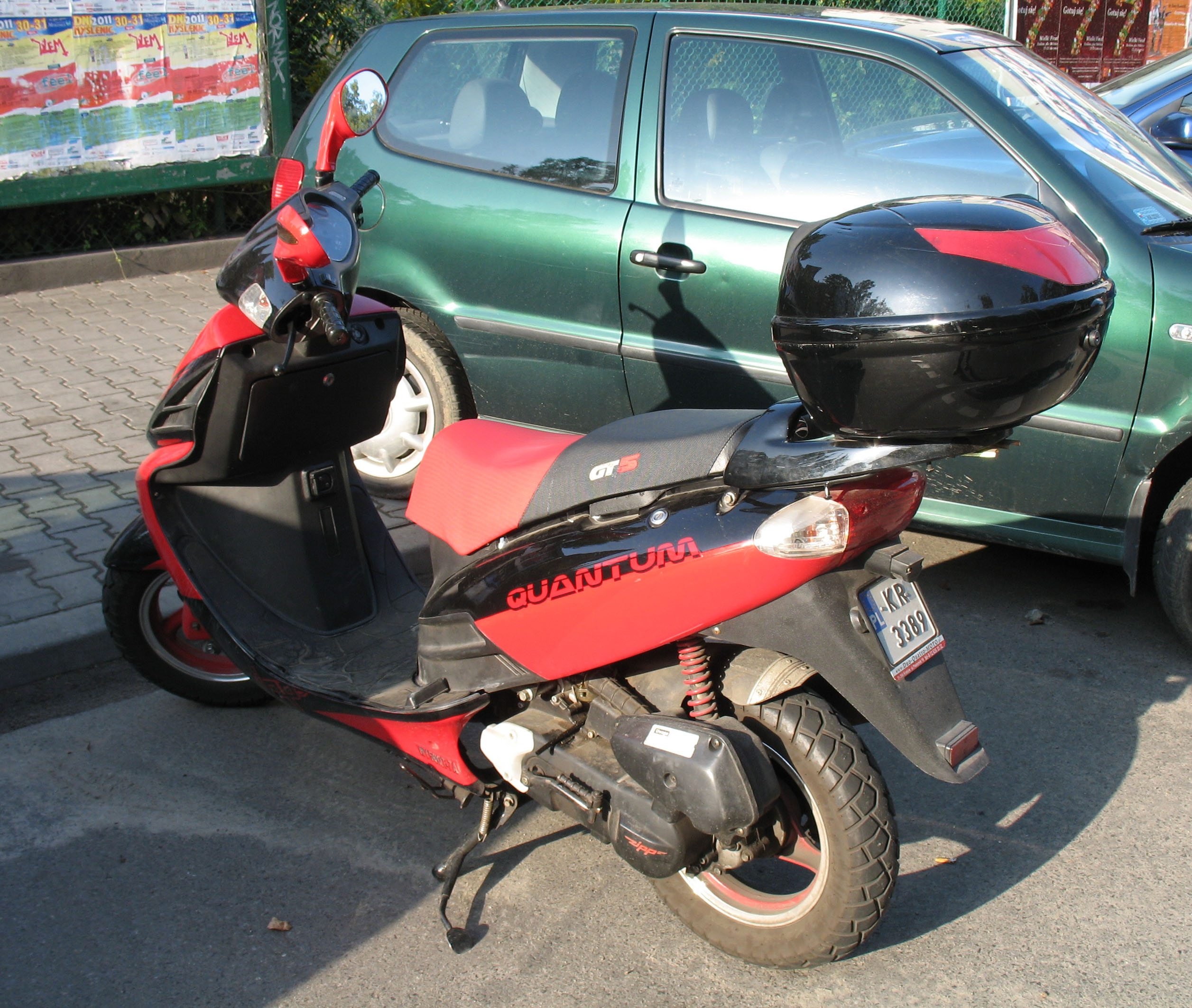 Zipp Quantum GT5 scooter in Kraków, Poland.